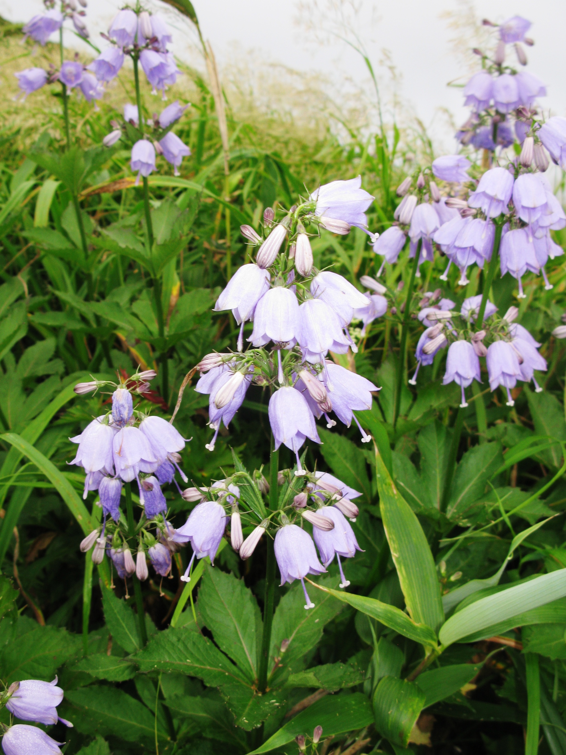 Adenophora triphylla var. japonica f. violacea, Mt. Iide, Niigata pref., Japan